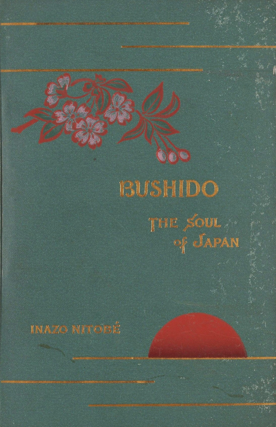 Front cover of Bushido: The Soul of Japan (Philadelphia: Leeds & Biddle, 1900) by Inazō Nitobe (1862-1933). English language version. Hearn 92.40.10, Houghton Library, Harvard University